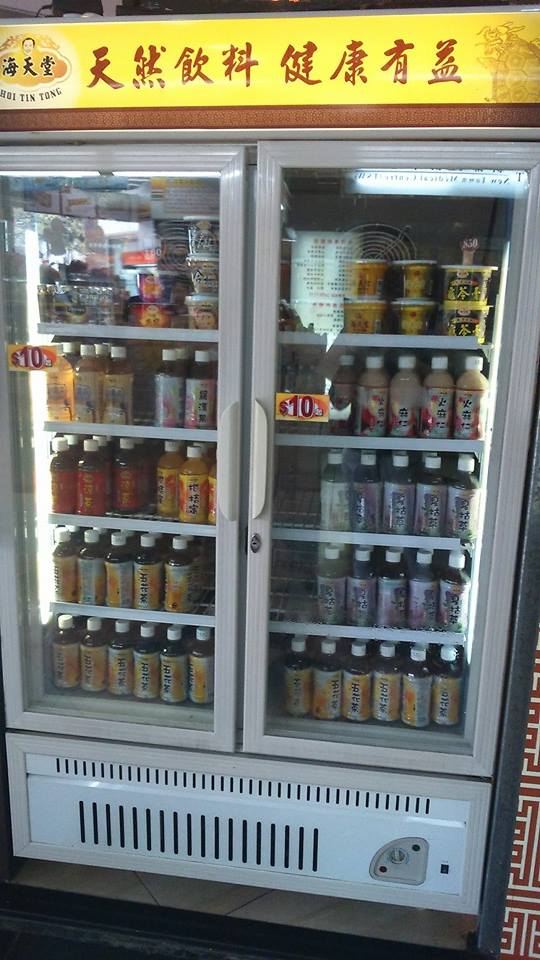 Takeaway Herbal tea and herbal jelly.